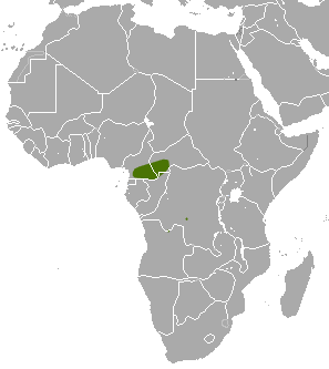 Congo Golden Mole (Calcochloris leucorhinus) range